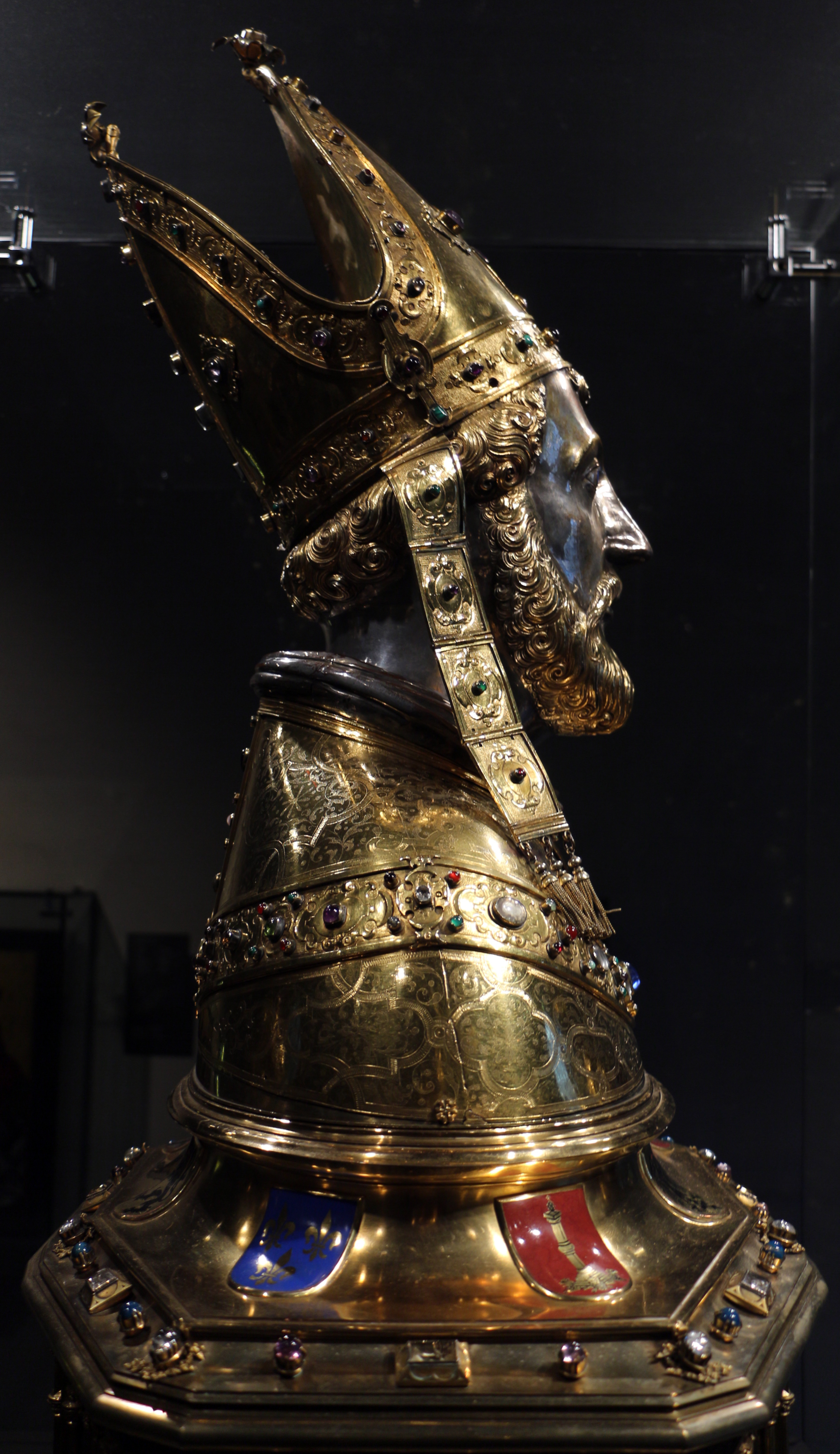 Collections of the Treasury of Sint-Servaasbasiliek